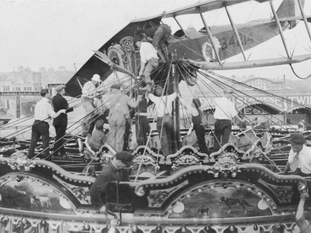 Frederick McCall crashes his plane at the Calgary Stampede